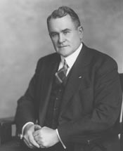 Thomas L. Blanton, US Representative from Texas